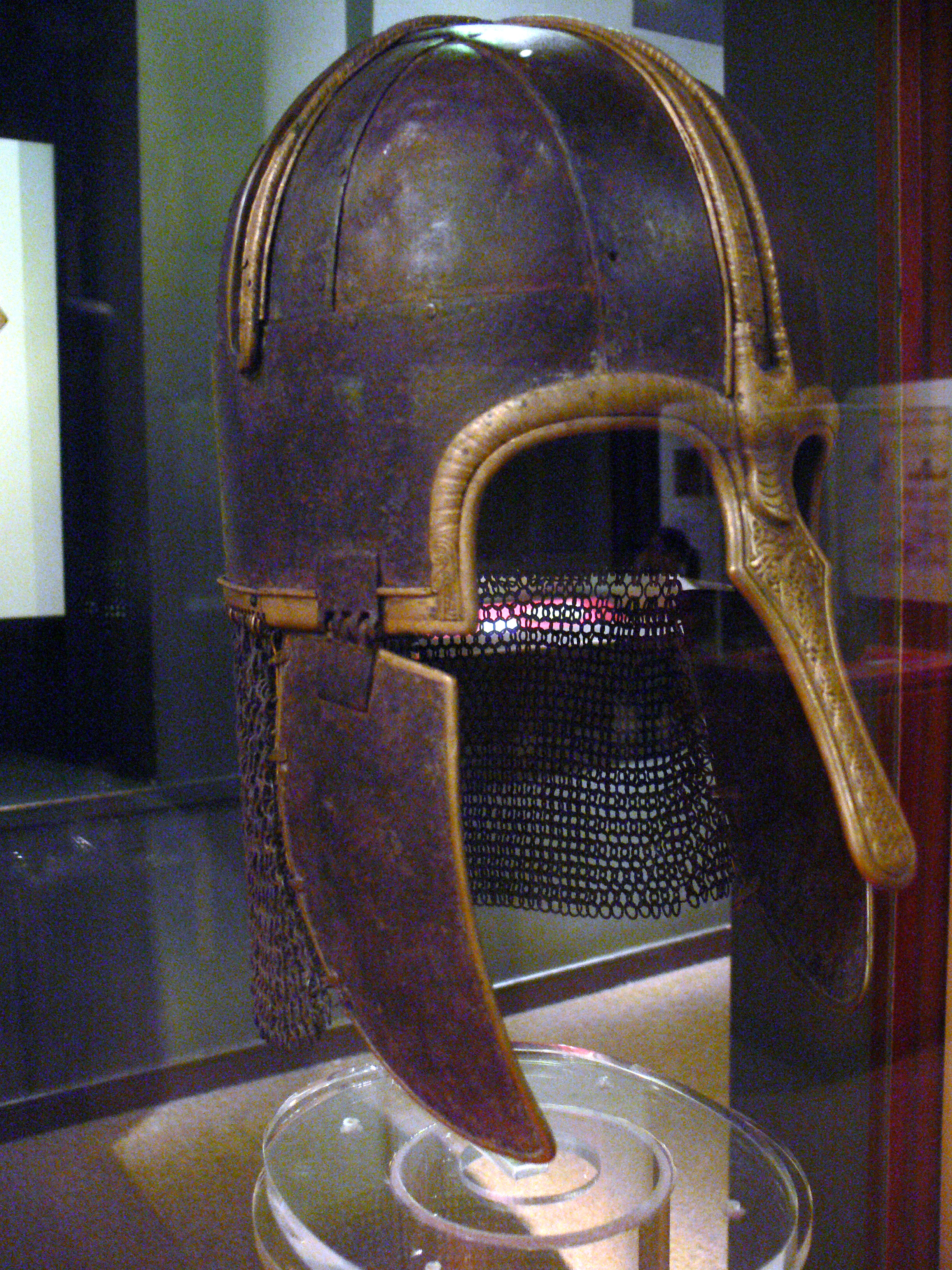 The Anglo-Saxon Coppergate Helmet, 8th century, Museum of York: see Webster, L. & Backhouse, J., The Making of England Anglo-Saxon Art and Culture AD 600-900, British Museum Press, 1991, pp. 60–2.